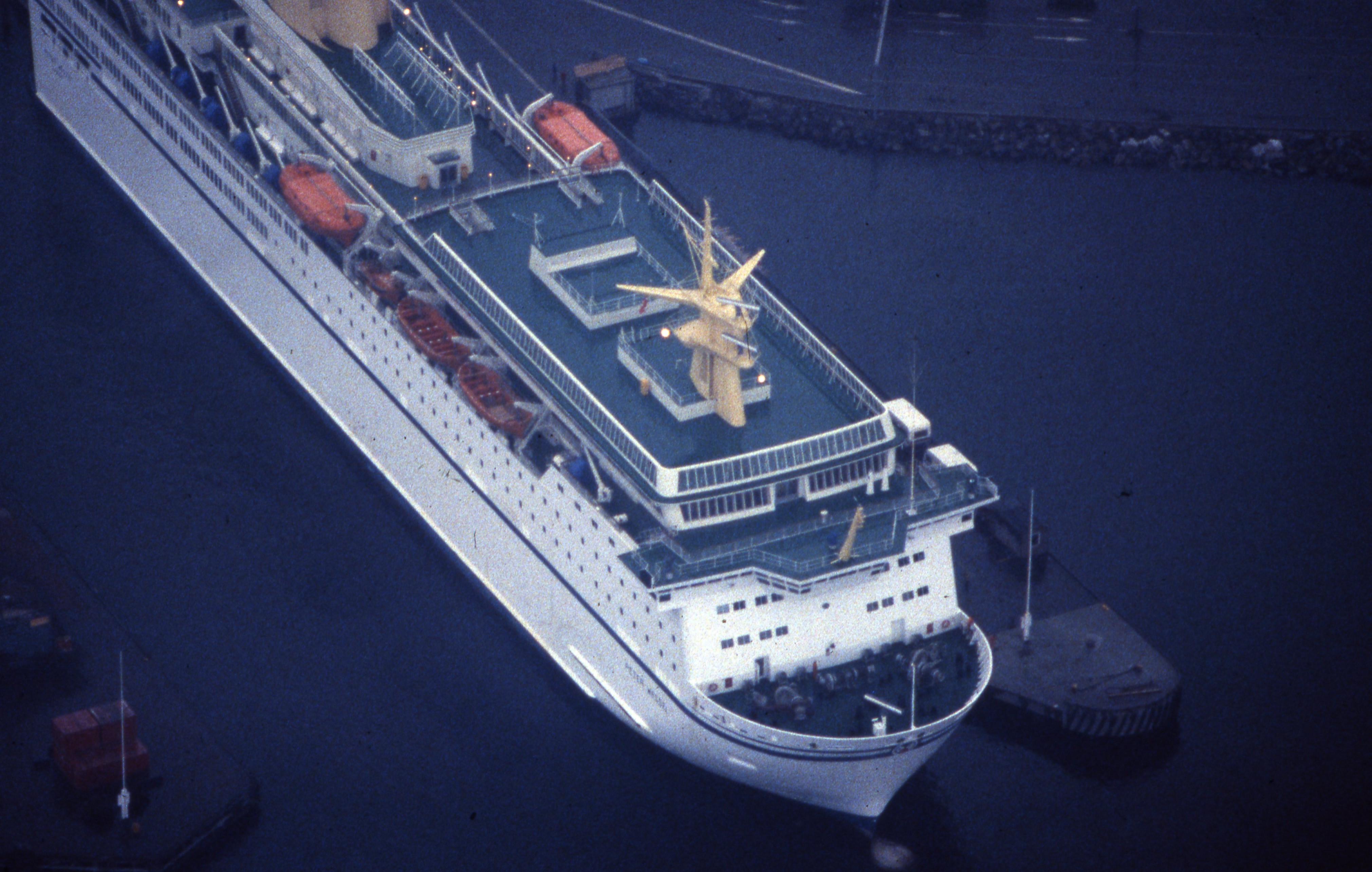 Format: Dias / Lysbildeformat Dato / Date: ca. 1984 Fotograf / Photographer: Henning Meyer (1946 - 2004) Sted / Place: Vestfold / Larvik-området Wikipedia: MS "Peter Wessel" Eier / Owner Institution: Trondheim byarkiv, The Municipal Archives of Trondheim Arkivreferanse / Archive reference: Tor.H47.B01.F23024